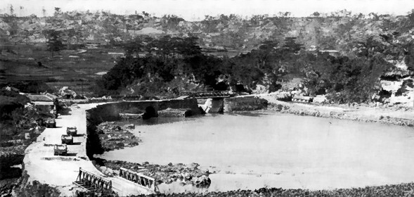 Machinato inlet, seen shortly after the action of 19 April. Three Weasels on the road (left) were knocked out. In background (left) Buzz Bomb Bowl slopes up to Urasoe-Mura Escarpment